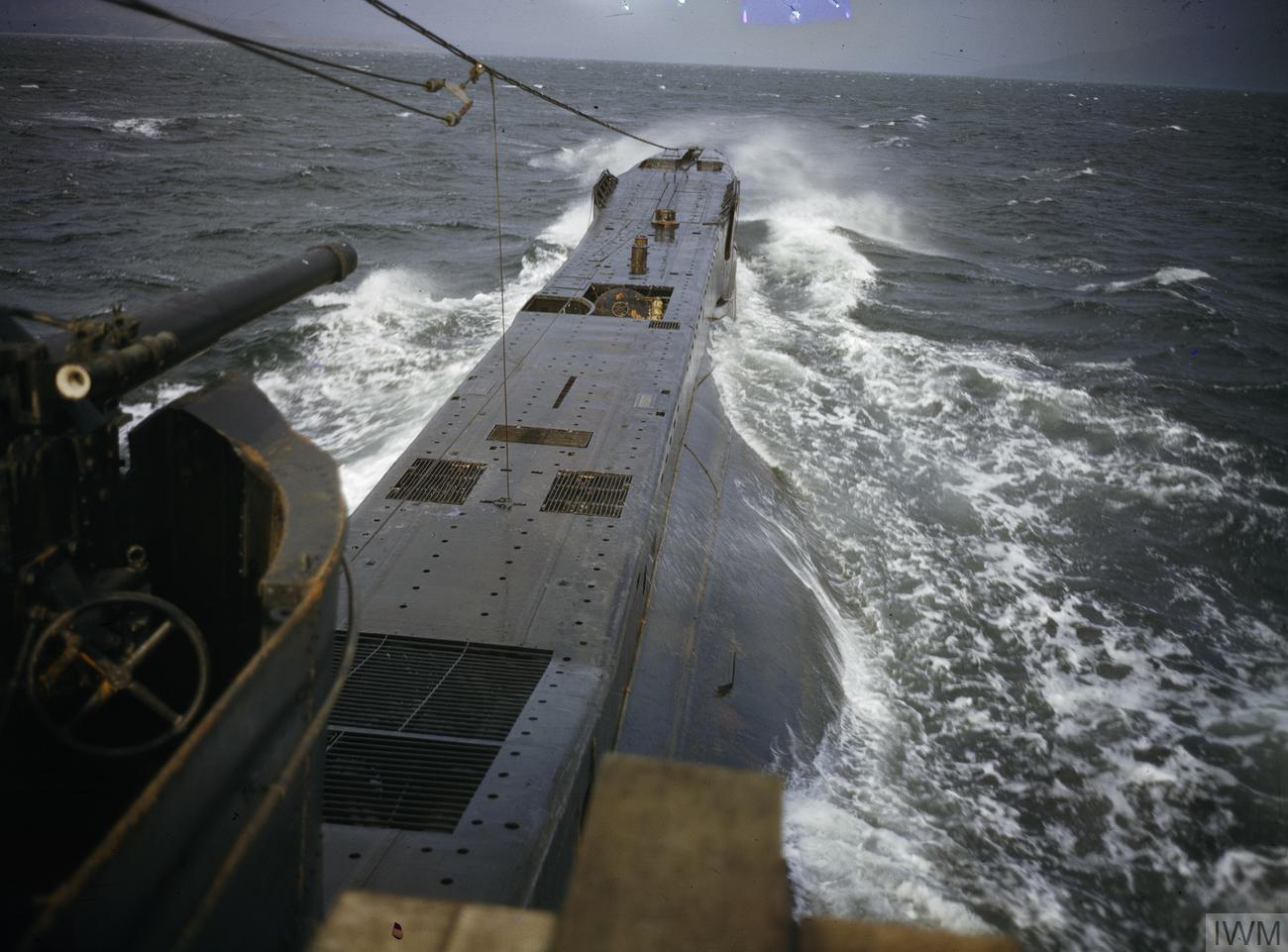 IWM caption : Forward view from the conning tower of HMS Tribune running on the surface in Scottish waters.